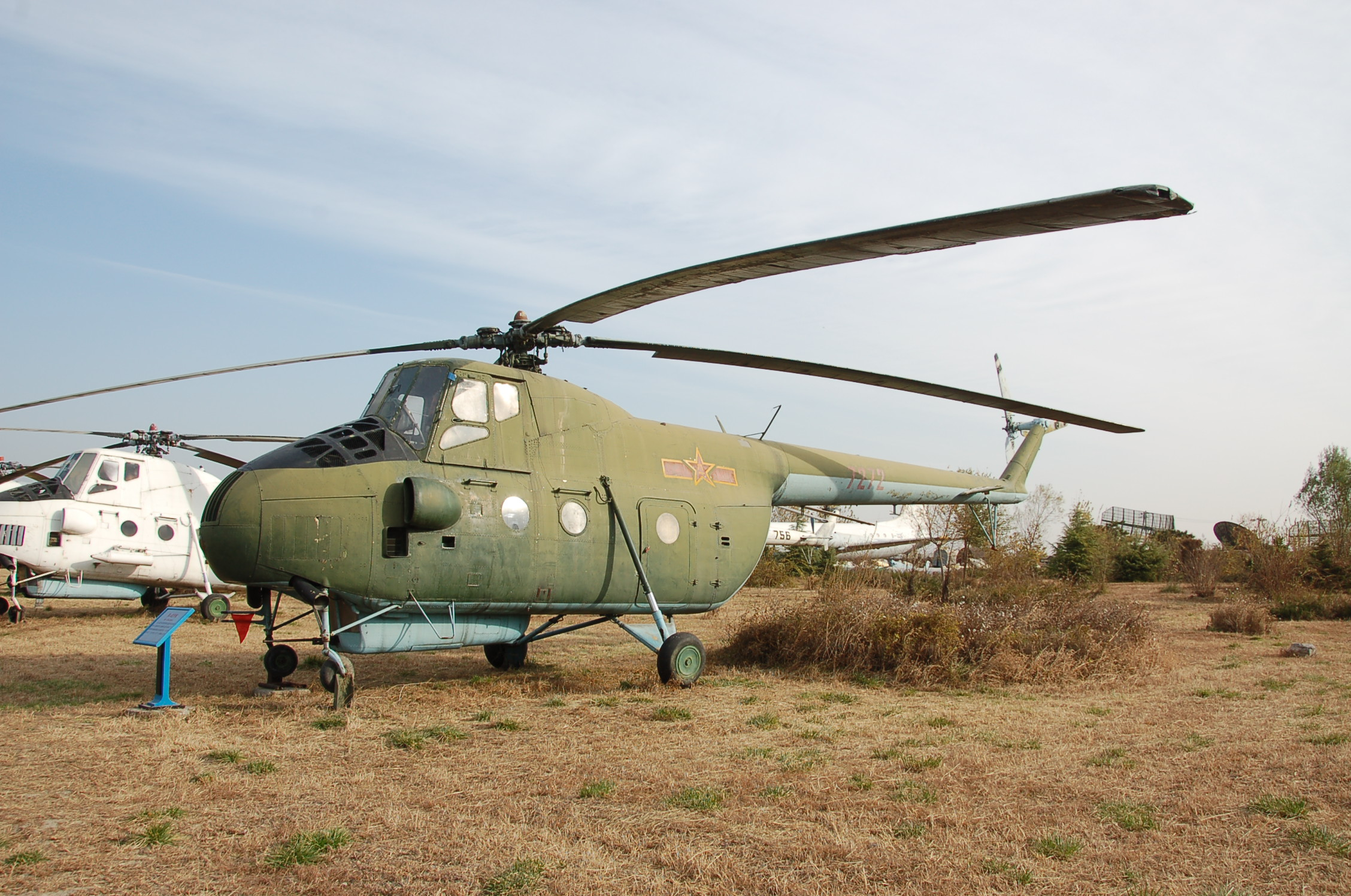 Harbin Z-5 at the China Aviation Museum,Xiaotangshanzen,Datang Shan,Beijing,China on 06/11/08.